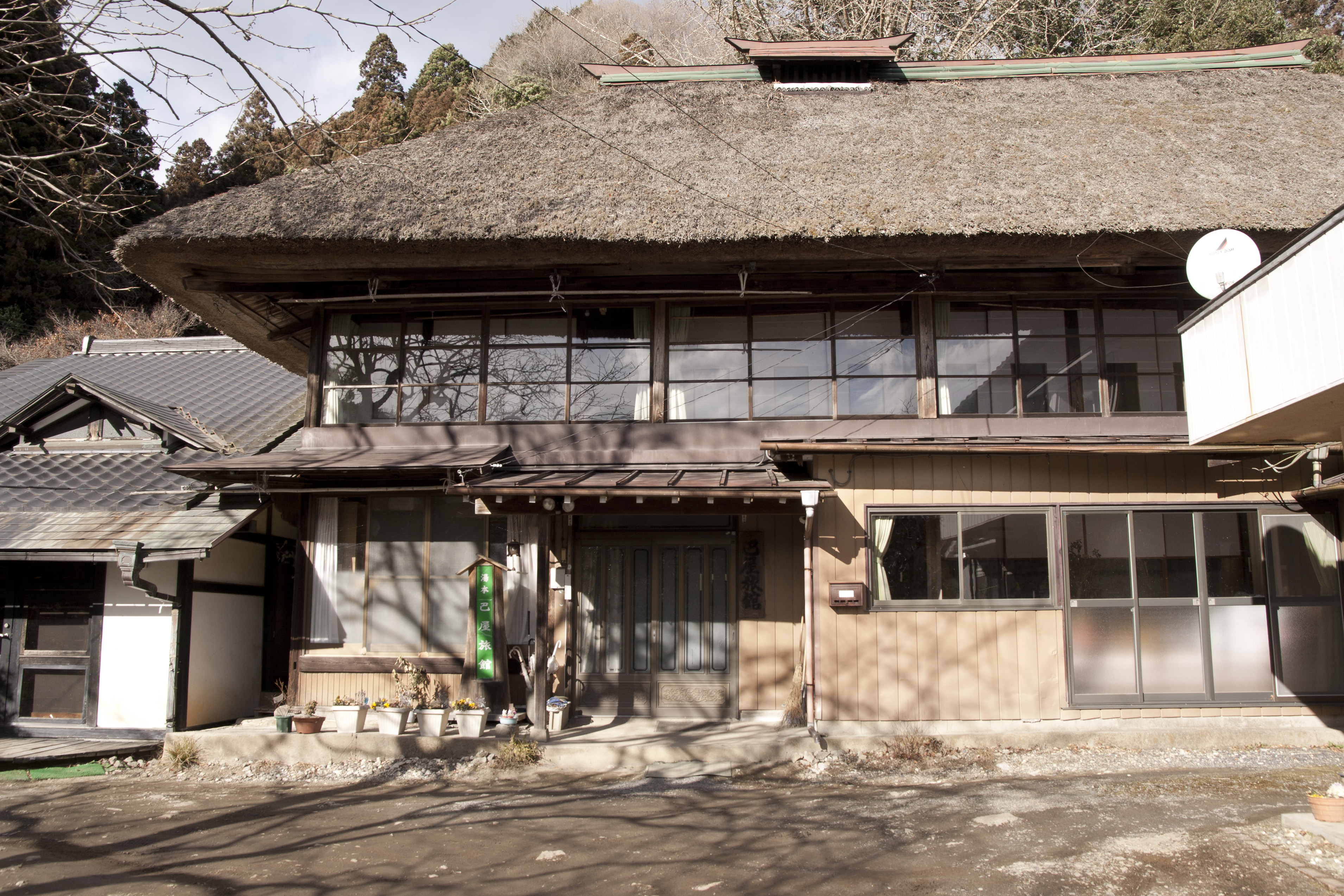 Yokokawa Onsen, Hitachi-Ota City, Ibaraki Pref., Japan